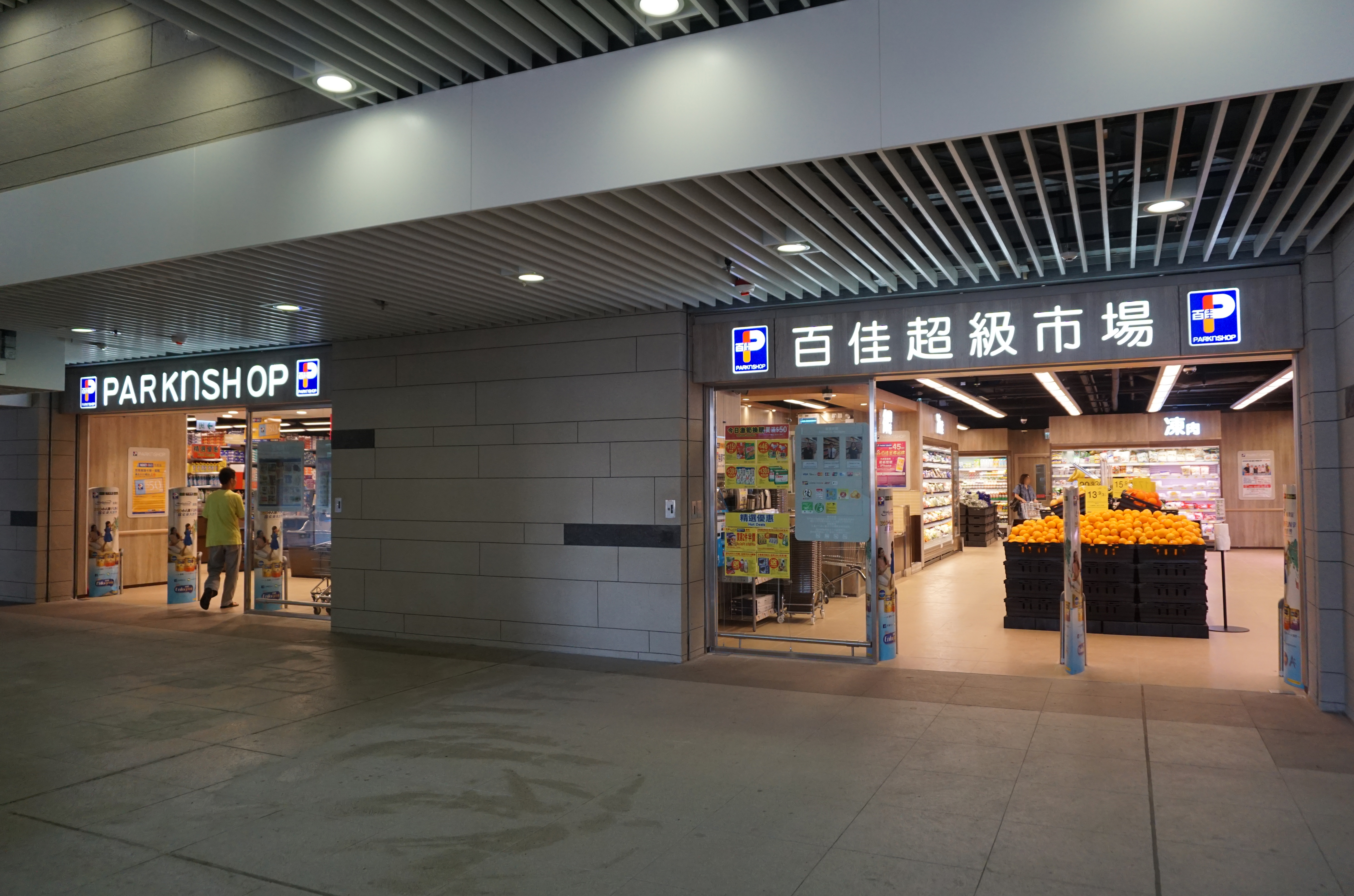 On Tat Shopping Centre in Kwun Tong, Hong Kong.